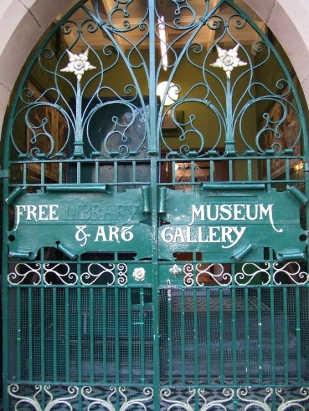 Original gate entrance to Blackburn Museum and Art Gallery, embossed with the phrase "Free Library, Museum & Art Gallery"; the lettering is white (against a green background) except for the word "Library", which is green to match the background color and to reflect the subsequent departure of the library.